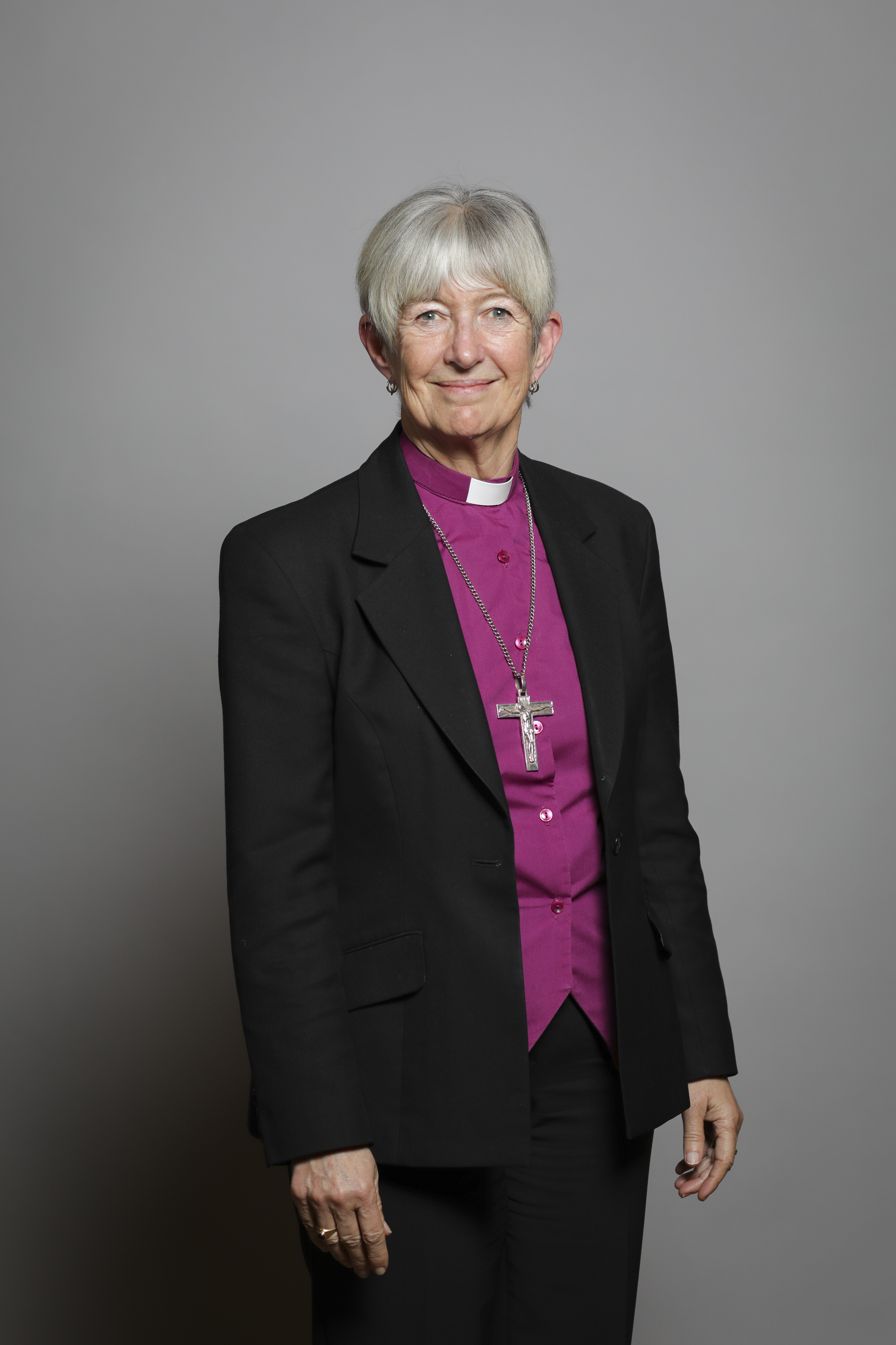 Official portrait of The Lord Bishop of Newcastle Full sized portrait of The Lord Bishop of Newcastle